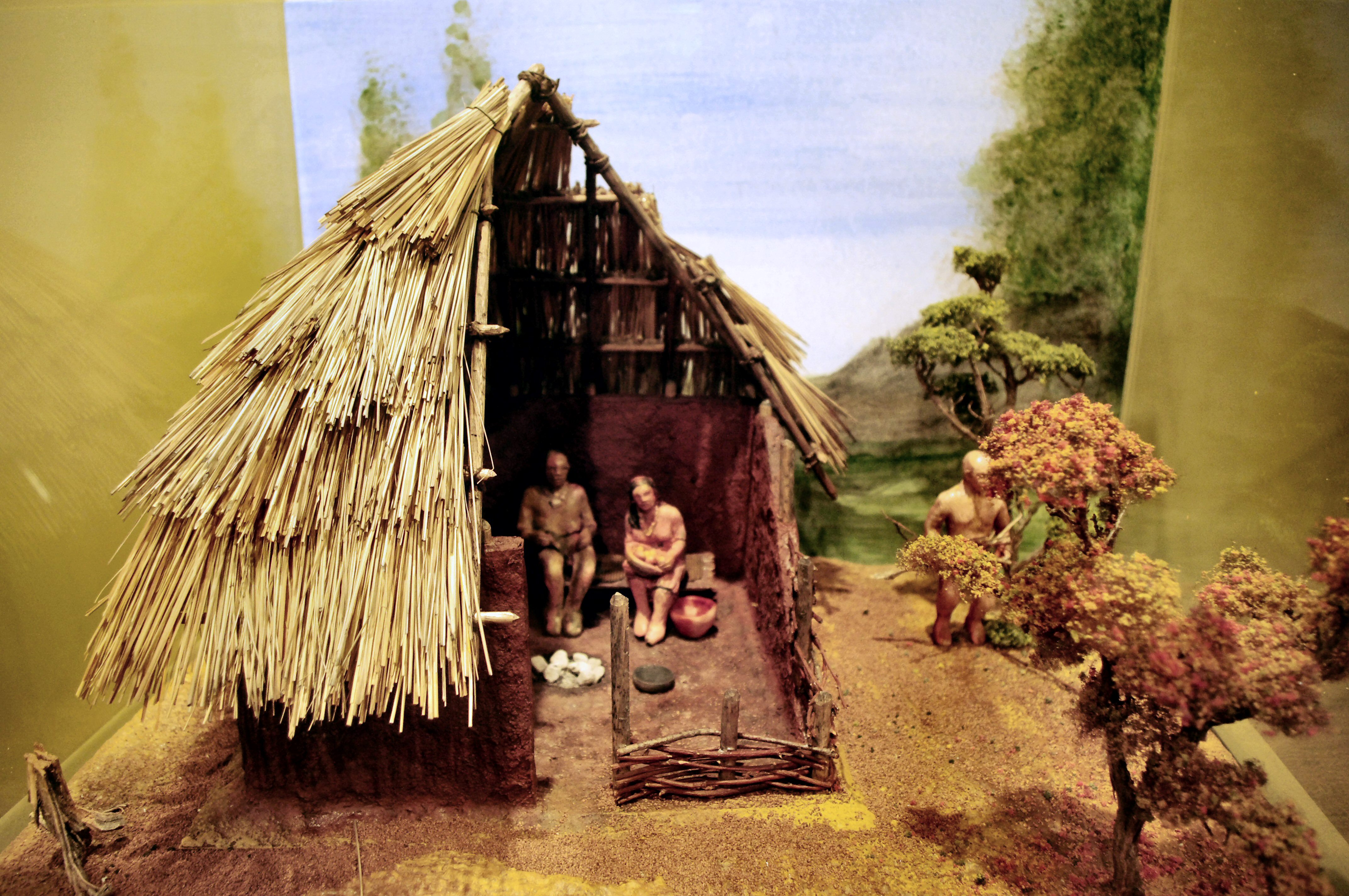 Model of a Mississippian period (1000–1600 A.D.) house at the Great Smoky Mountains Heritage Center in Townsend, Tennessee, United States.